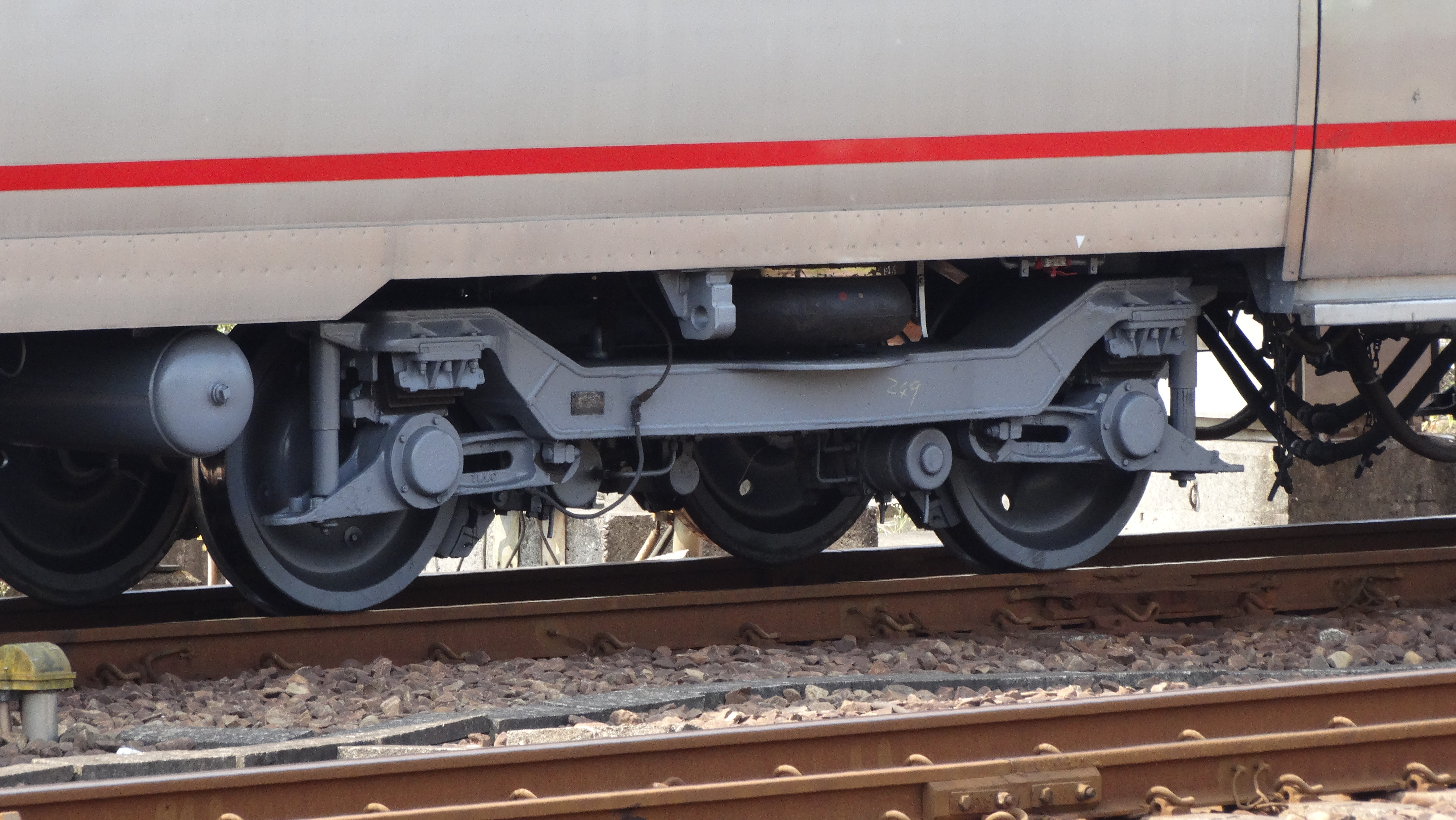 passenger car bogie of TRA PP